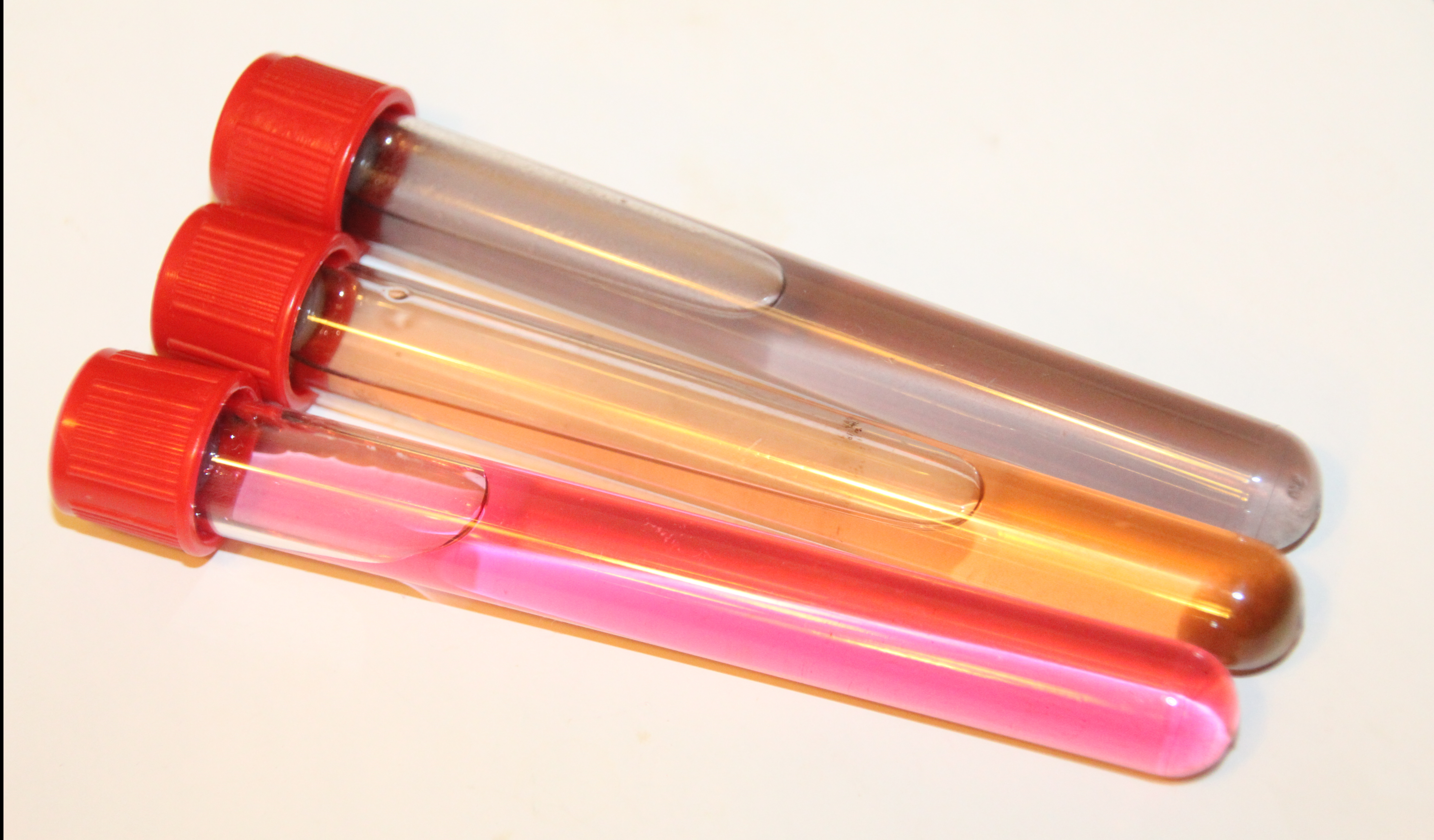 Reduced forms of Cyanocobalamin, which contain a Co(I) (top), Co(II) (middle), and Co(III) (bottom).